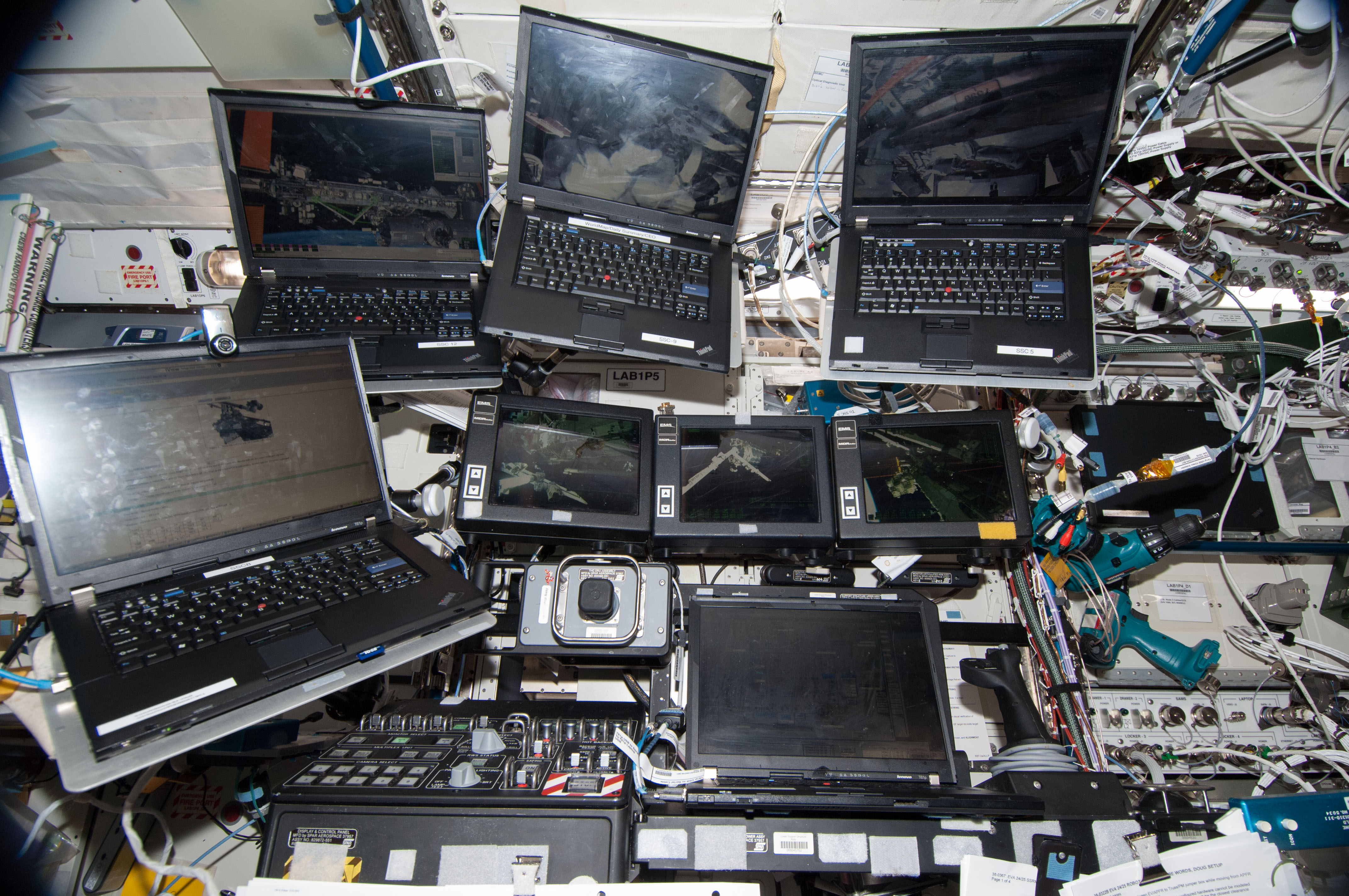 A view of a couple ISS laptops in the US lab, in the robotic workstation area Inside the U.S. lab Destiny, this photograph provides an overall view of the robotic workstation for controlling the International Space Station's remote manipulator system or Canadarm2. Astronaut Koichi Wakata, who represents the Japan Aerospace Exploration Agency, spent most of the work day supporting the Dec 21 spacewalk of NASA astronauts Rick Mastracchio and Mike Hopkins. It was the first of two spacewalks designed to change out a faulty water pump on the orbital outpost.